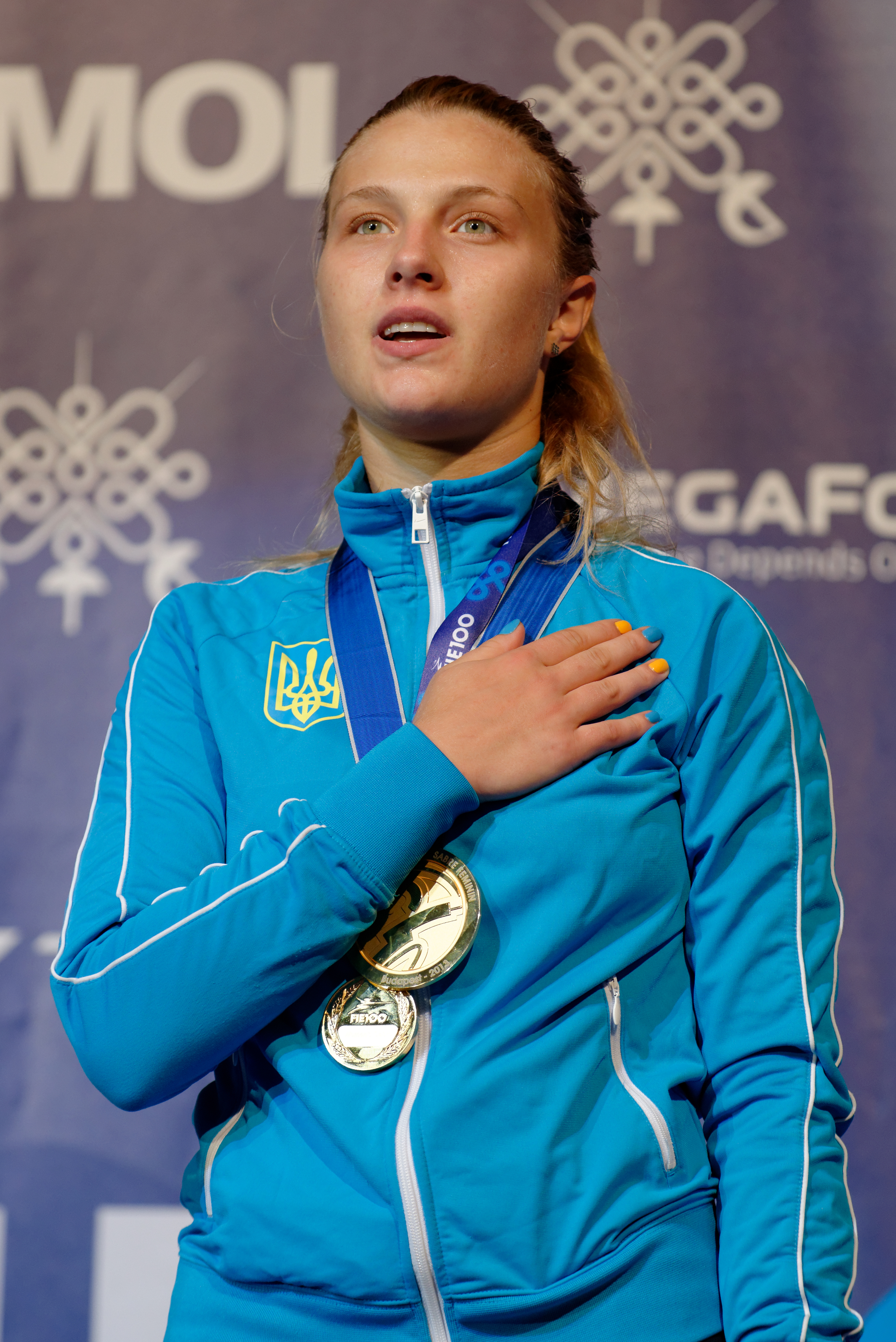 Ukraine's Olha Kharlan sings her national anthem on the podium of the women's sabre event of the 2013 World Fencing Championships 2013 at Syma Hall in Budapest on 9 August 2013.